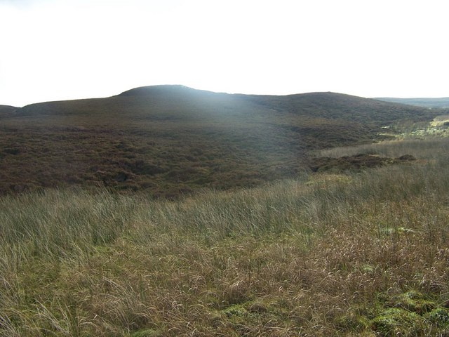 Moorland near Loch Urie